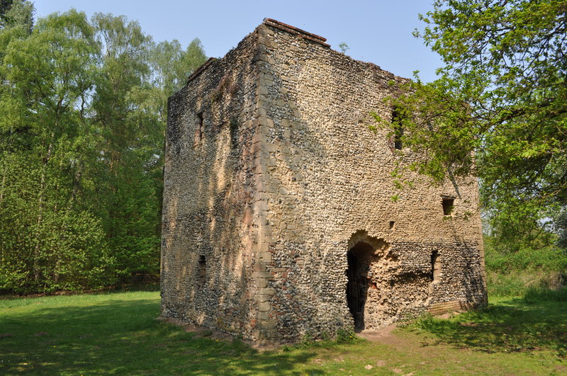 Thetford Warren Lodge, 4 km from Thetford, Norfolk, Great Britain. Thetford Warren Lodge was probably built c.1400 by the Prior of Thetford; this defensible lodge protected gamekeepers and hunting parties against armed poachers. Much later used by the local �warreners� who harvested rabbits here. Link